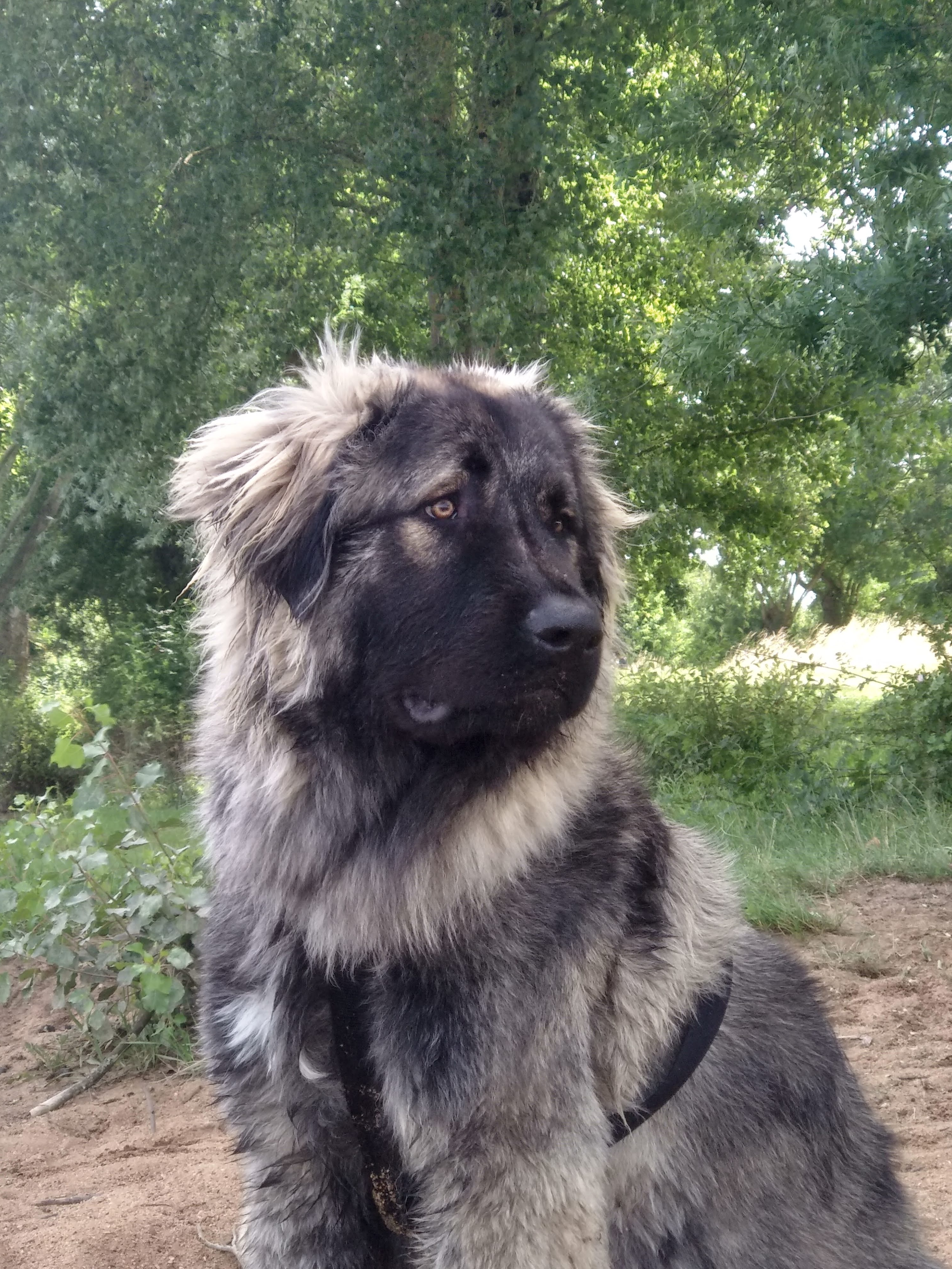 Caucasian Shepherd Dog